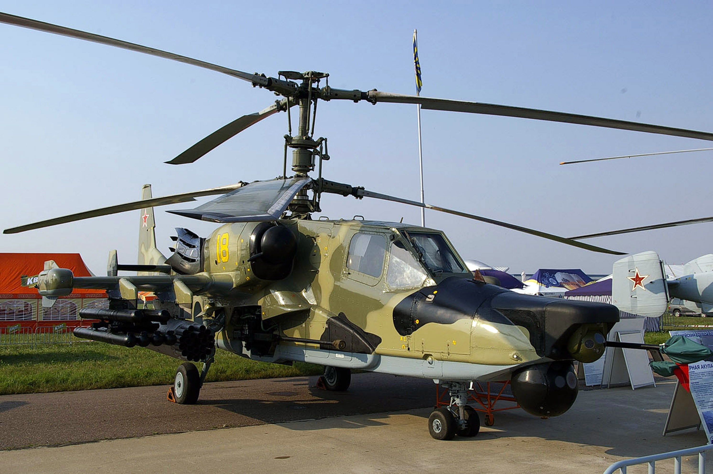 A Russian Kamov Ka-50 helicopter is on display on the opening day of the Moscow International Air Show Aug. 21 at Ramenskoye Airfield in Zhukovsky, Russia. The air show runs through Aug. 26 and includes Department of Defense participation of static displays and aerial flight demonstrations. The air show is one of the premier events of its type in the world. About 65 Airmen from bases worldwide are participating in this year's air show.